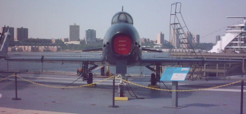 Photo of FJ Fury taken by me on board USS Intrepid in August 2003.